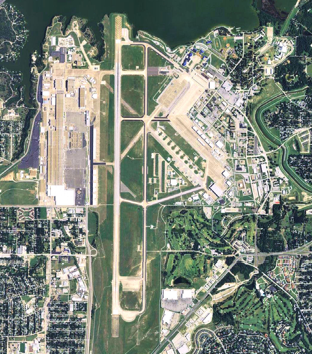 USGS digital orthophoto of Carswell Field, an airport in Texas